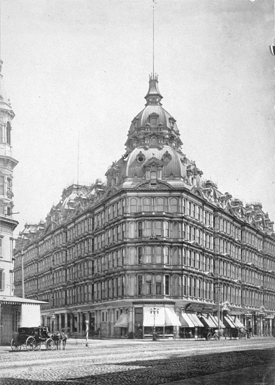 The Baldwin Hotel and Theater at Powell and Market in San Francisco three years after its construction in 1879.